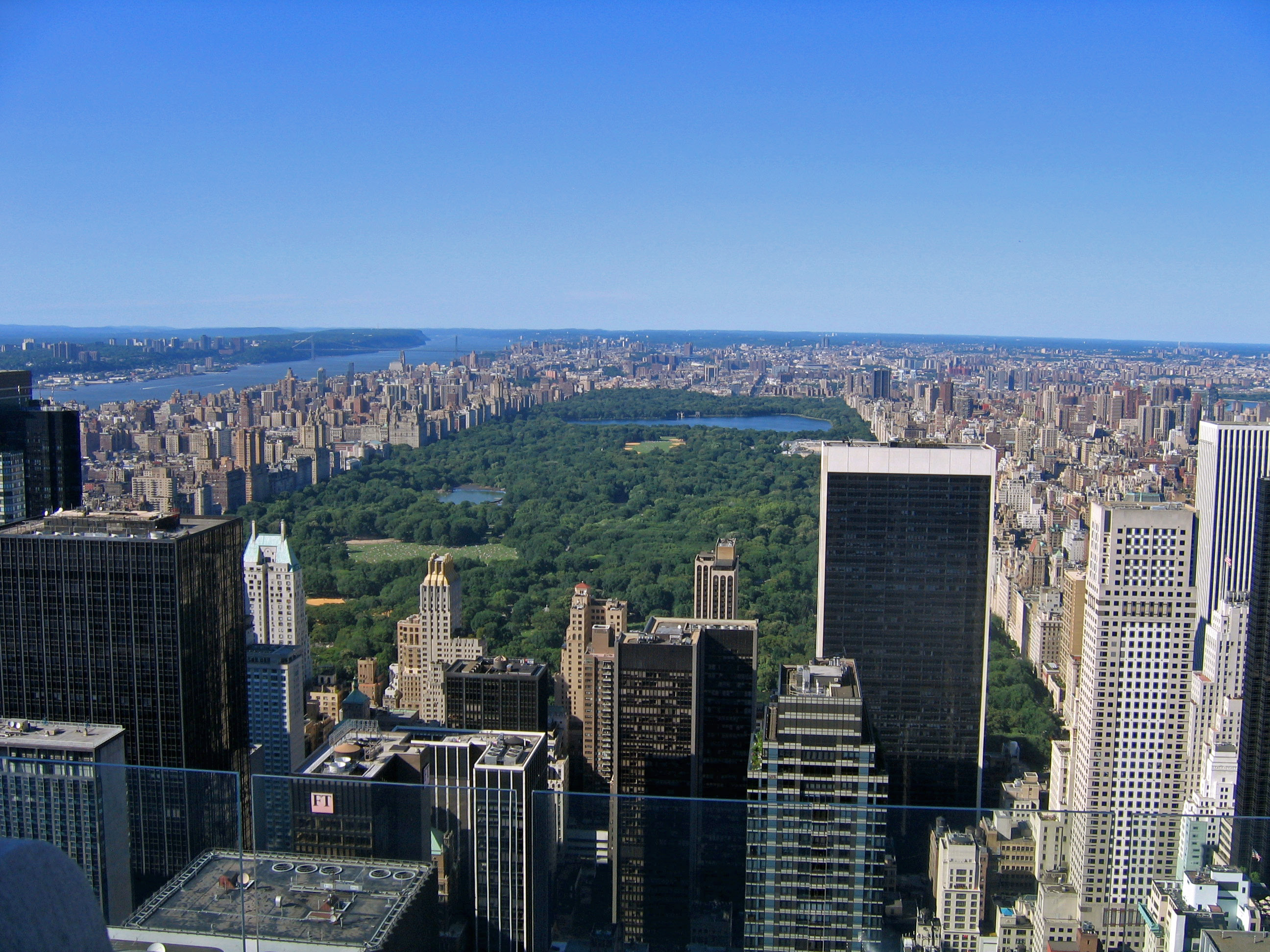 View of Central Park from Rockefeller Center.